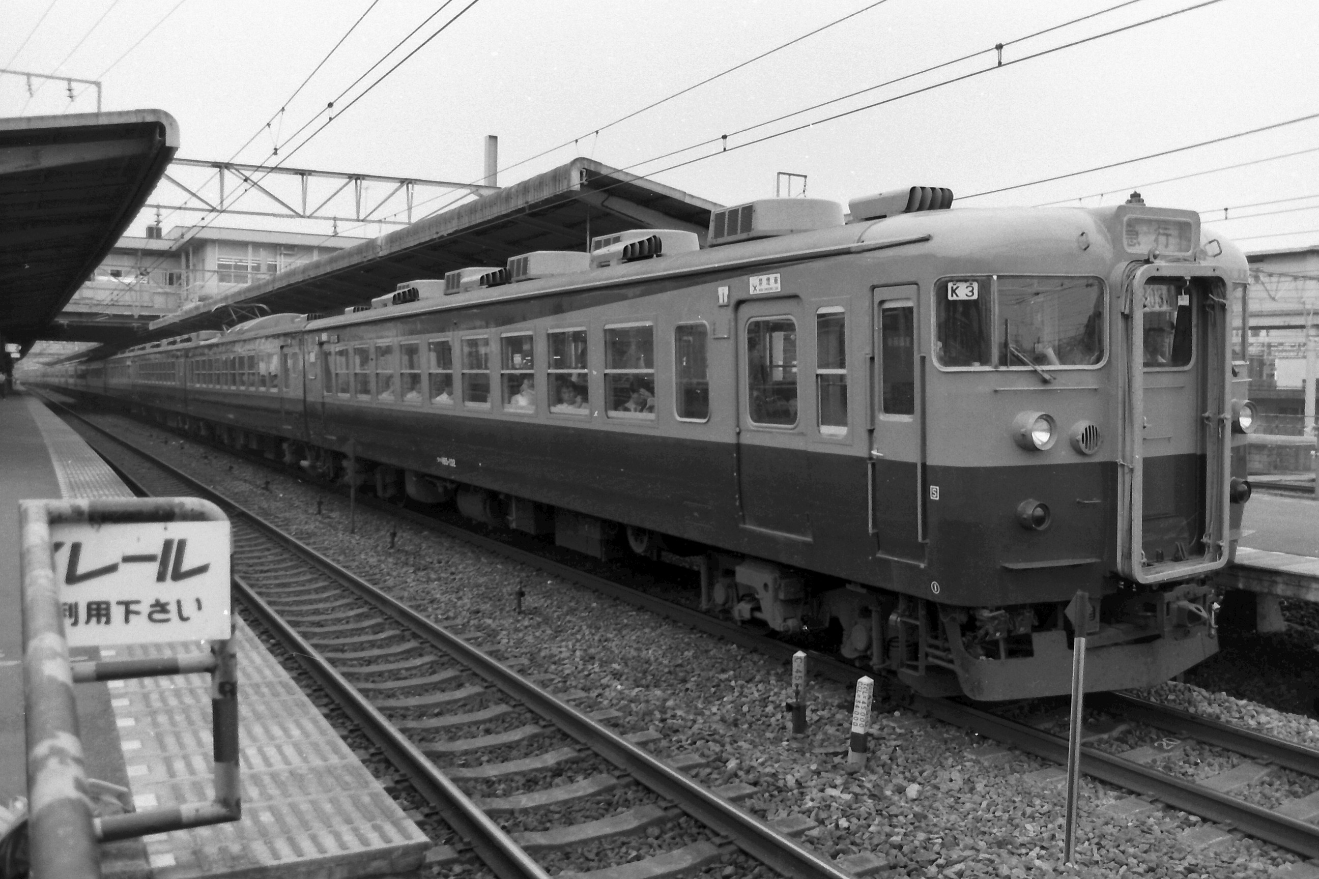 A 16-car JNR 165 series EMU train at Ofuna Station consisting of a 12-car "Tokai" formation and a 4-car "Gotemba" formation